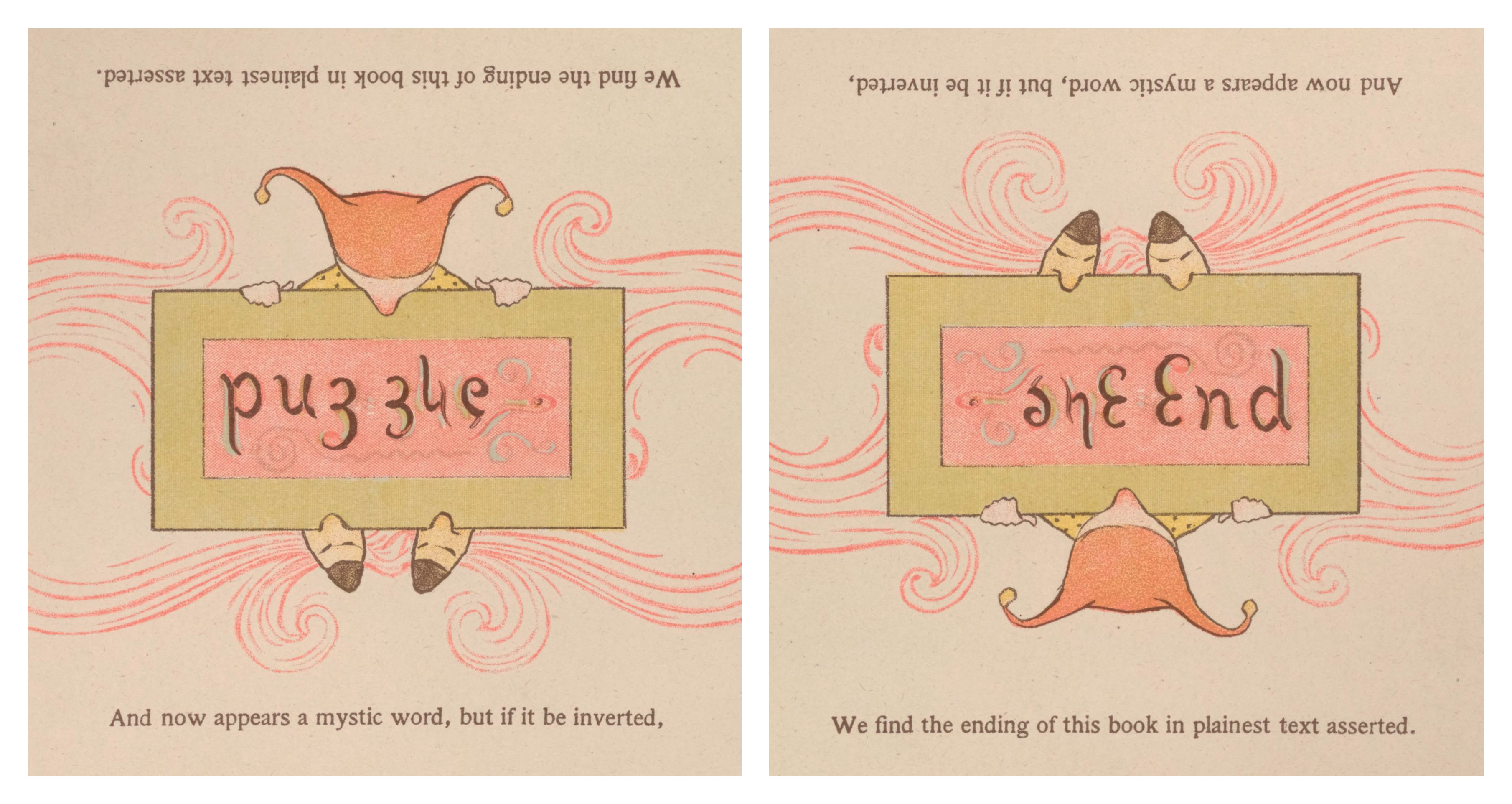 Ambigram Puzzle / the end by Peter Newell. 180° rotational symmetry. Reversible calligraphy published in 1893 in the book Topsys and turvys. Publisher: Century Company, New York. Gast Lithograph & Engraving Company, printer. Subject Headings: Upside-down books Specimens. Genre: Juvenile literature (1893). Notes: Printer named on leaf 31.